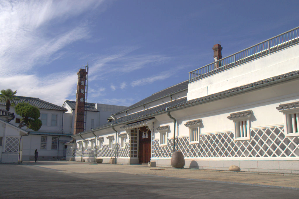 The Kamotsuru Sake Brewing Company